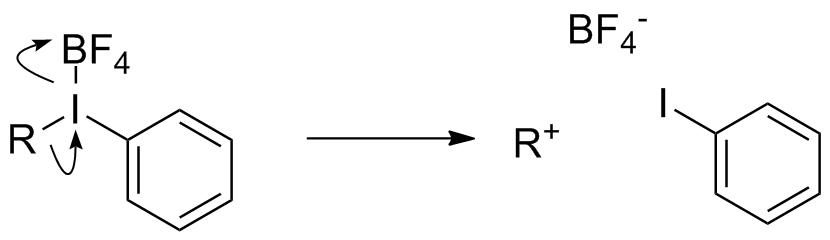 Reductive elimination of lamda-3 iodanes